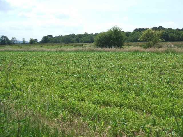 Maethop Moss